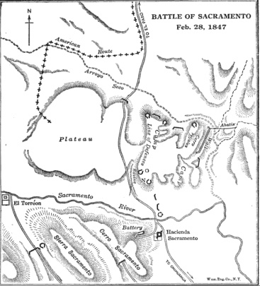 Disposition of forces along the Sacramento